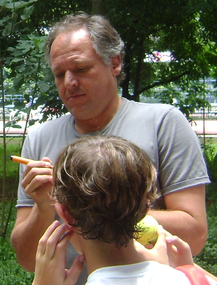 Dácio Campos, former tennis player from Brazil, at 2011 São Paulo Challenger